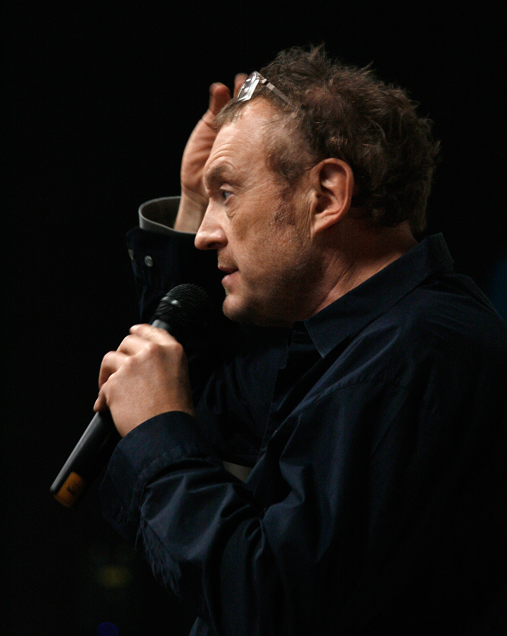 Josef Hader at the Auditorium Maximum of the University of Vienna, that was occupied by protesting students in autumn 2009.